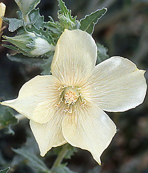 Mentzelia involucrata or sand blazing star flower found in the Mojave and Sonoran deserts of North America.